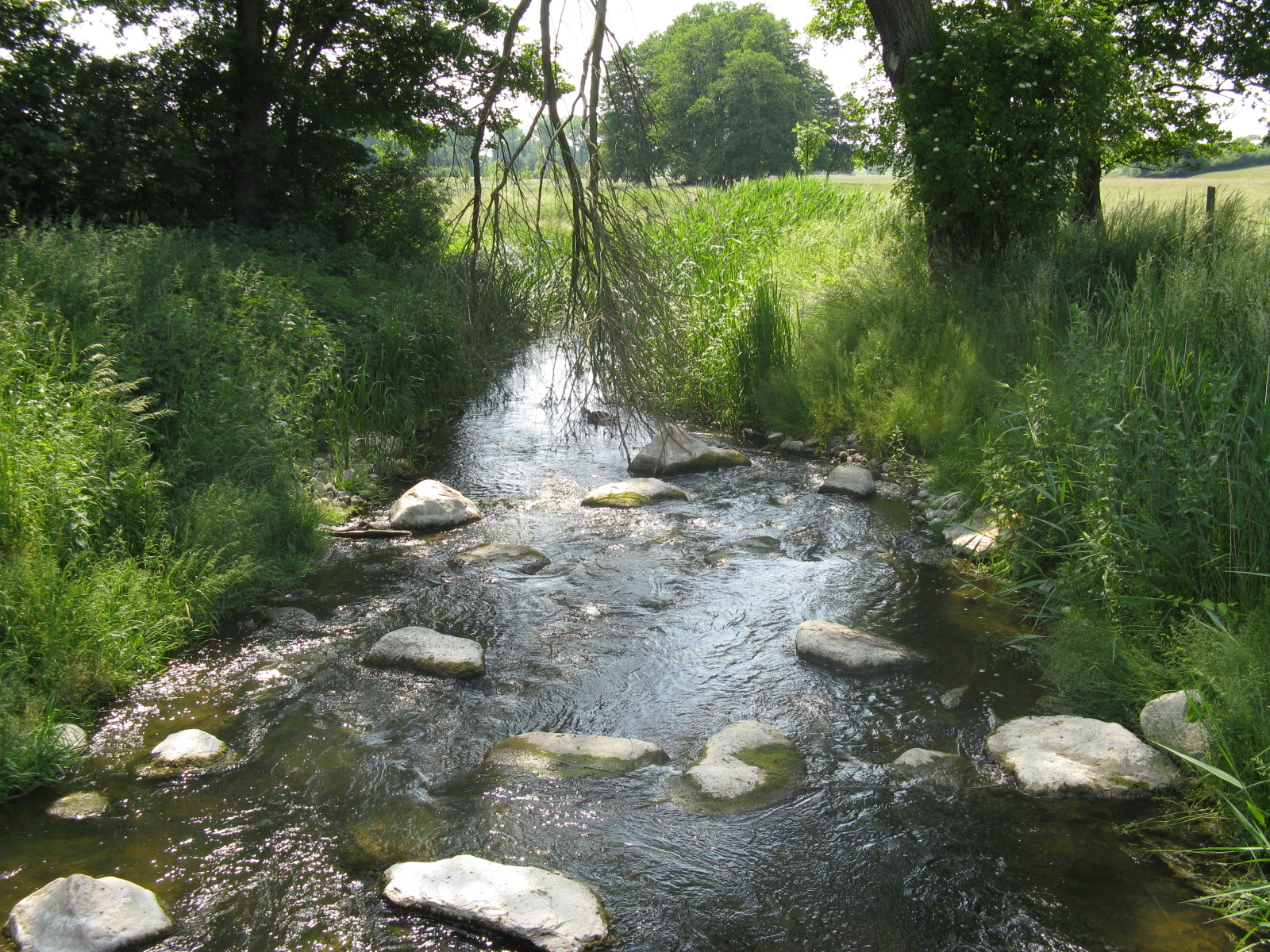 Schilde river after passing the lake Woezer See near Döbbersen, Mecklenburg-Vorpommern, Germany